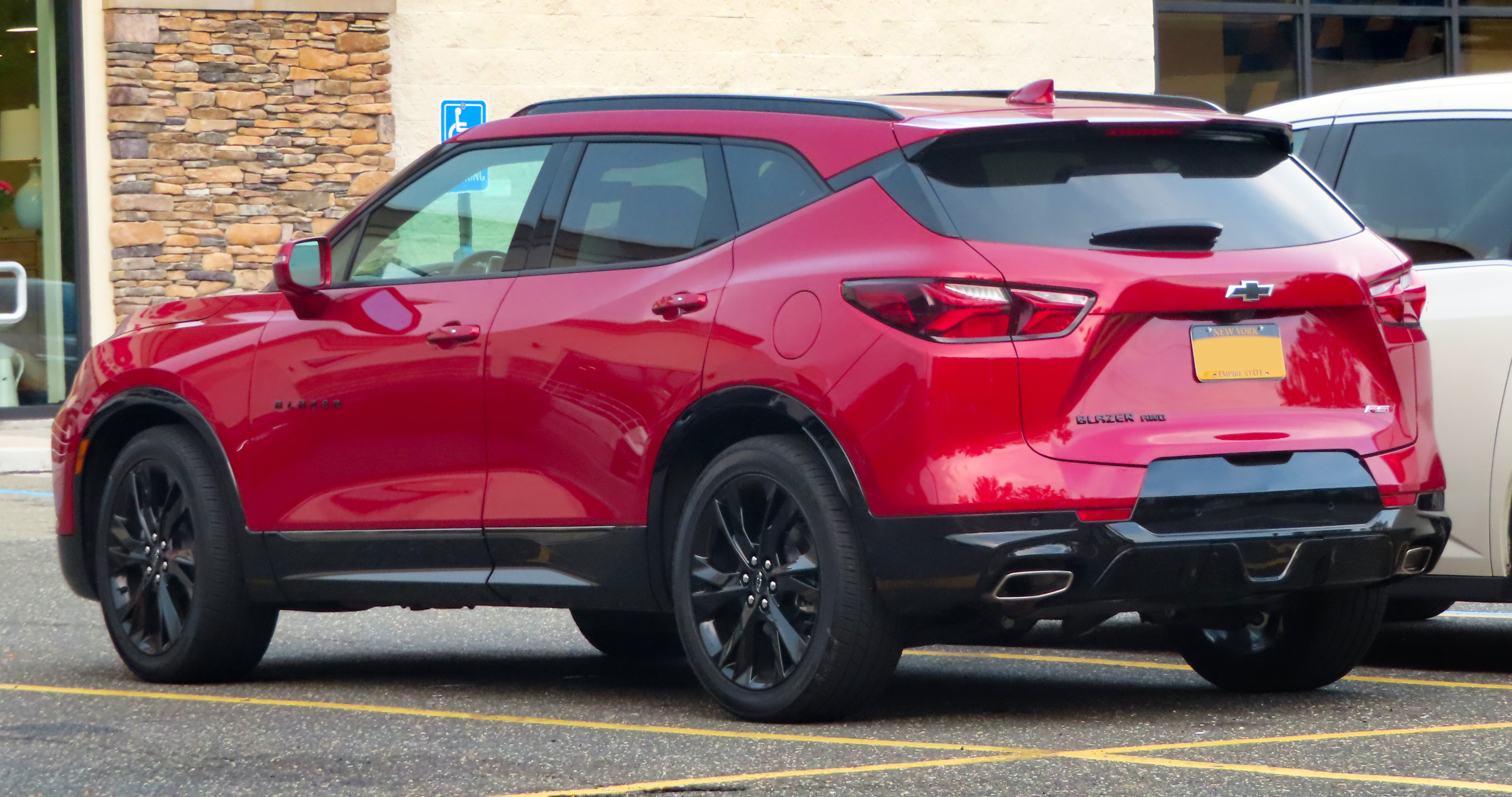 A 2019 Chevrolet Blazer RS photographed in College Point, Queens, New York, USA